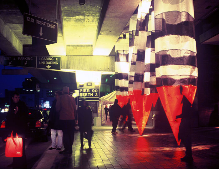 This project was installed beneath the roadside cement overpasses of New York City's Westside Highway at Piers 88 and 90. Lighting transforms this sculpture at night and visitors move between the moving illuminated forms as they try to flag down a taxi.